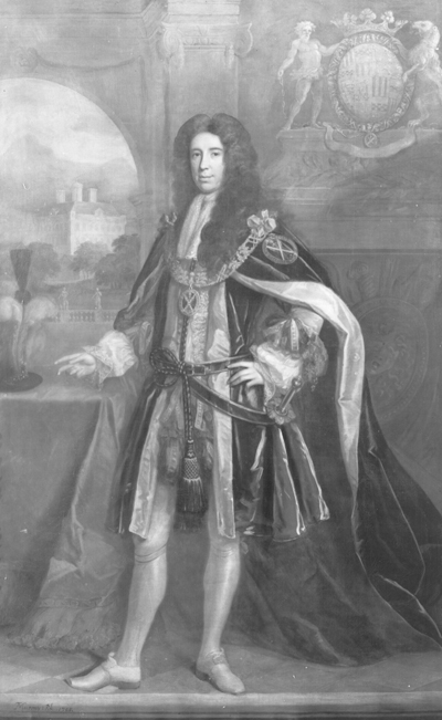 John Murray, 1st Duke of Atholl (1660-1724), by Thomas Murray, signed and dated 1705. A view of old Dunkeld House can be seen through the arch in the background. Dunkeld House, built by Sir William Bruce in 1676-84 for the 1st Marquis of Atholl. Demolished in 1827, this was one of Scotland's major 17th-century mansions.